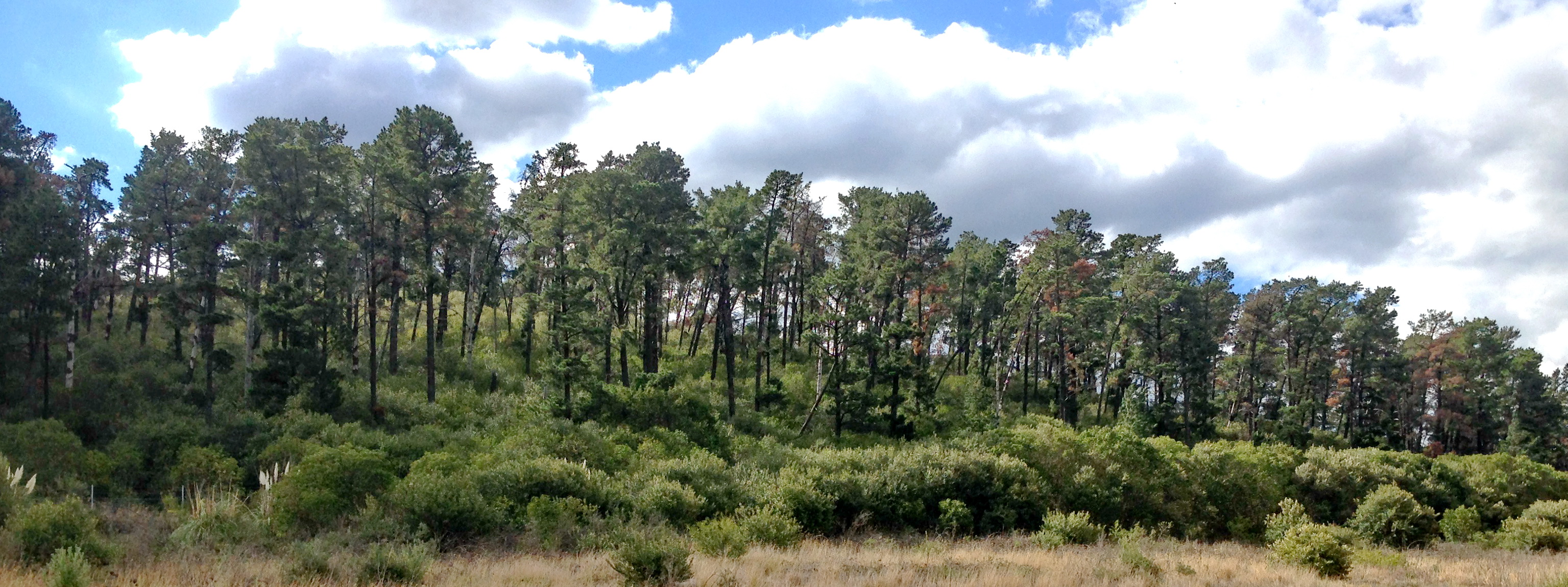 Prospect Hill pine forest in Western Sydney, Australia. (Pinus radiata)